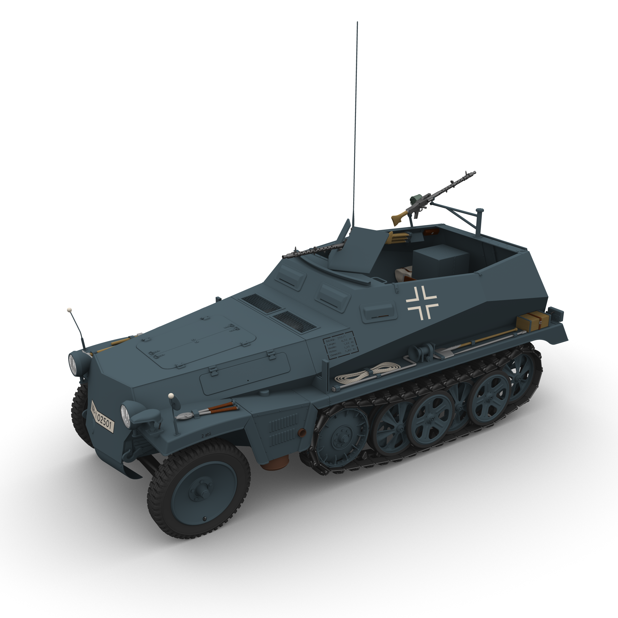 German armored personnel carrier: Sd.Kfz. 250/1 (alt). 3D model, perspective view.